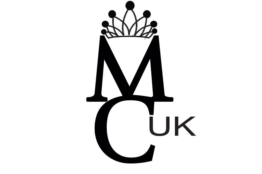 MCUK abbreviation logo of the Miss Caribbean UK pageant